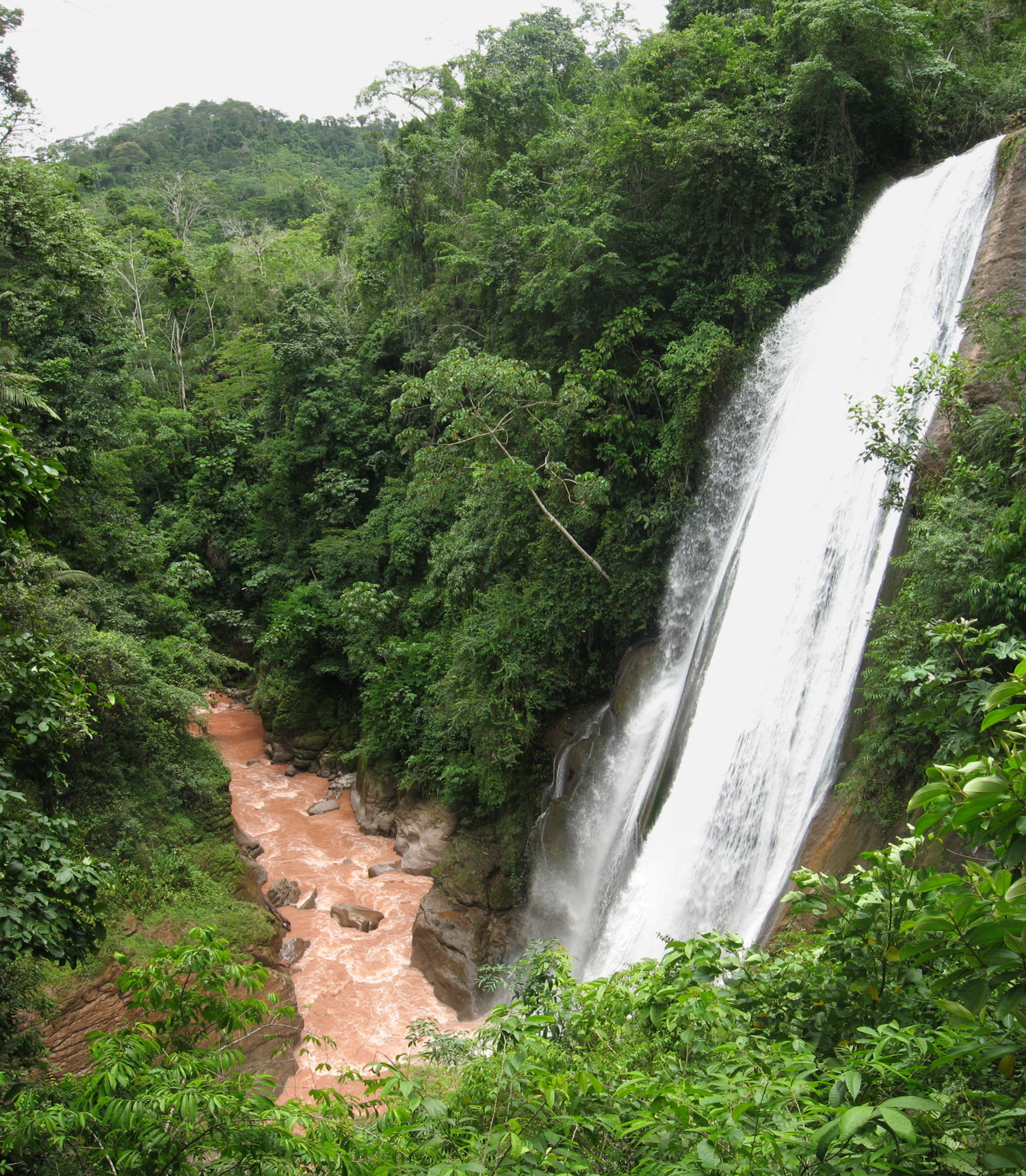 Velo de la Novia Falls, Chanchamayo Province, Junín Department, Peru.